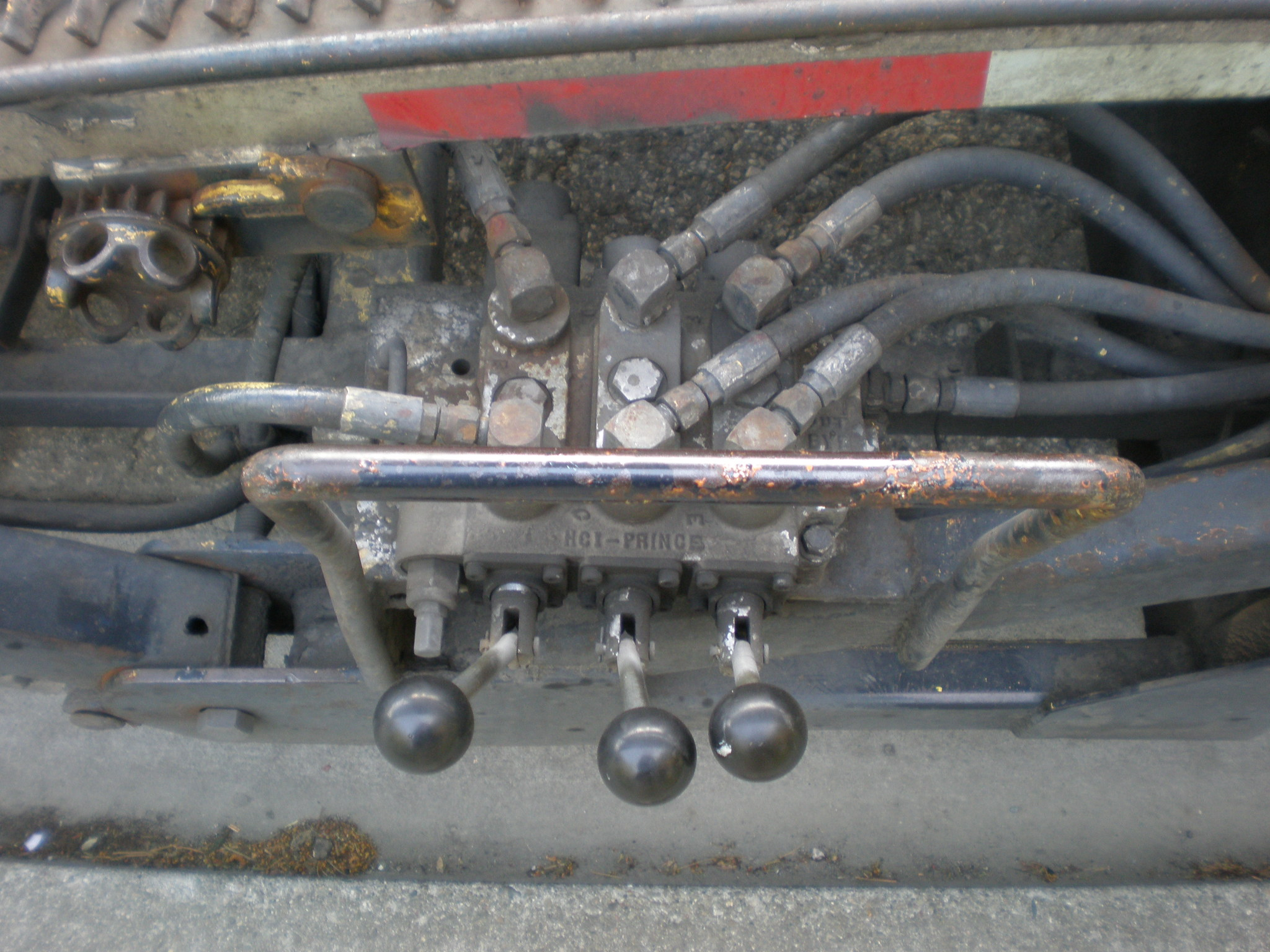 The controls for the trailer of an International Eagle car carrying trailer.